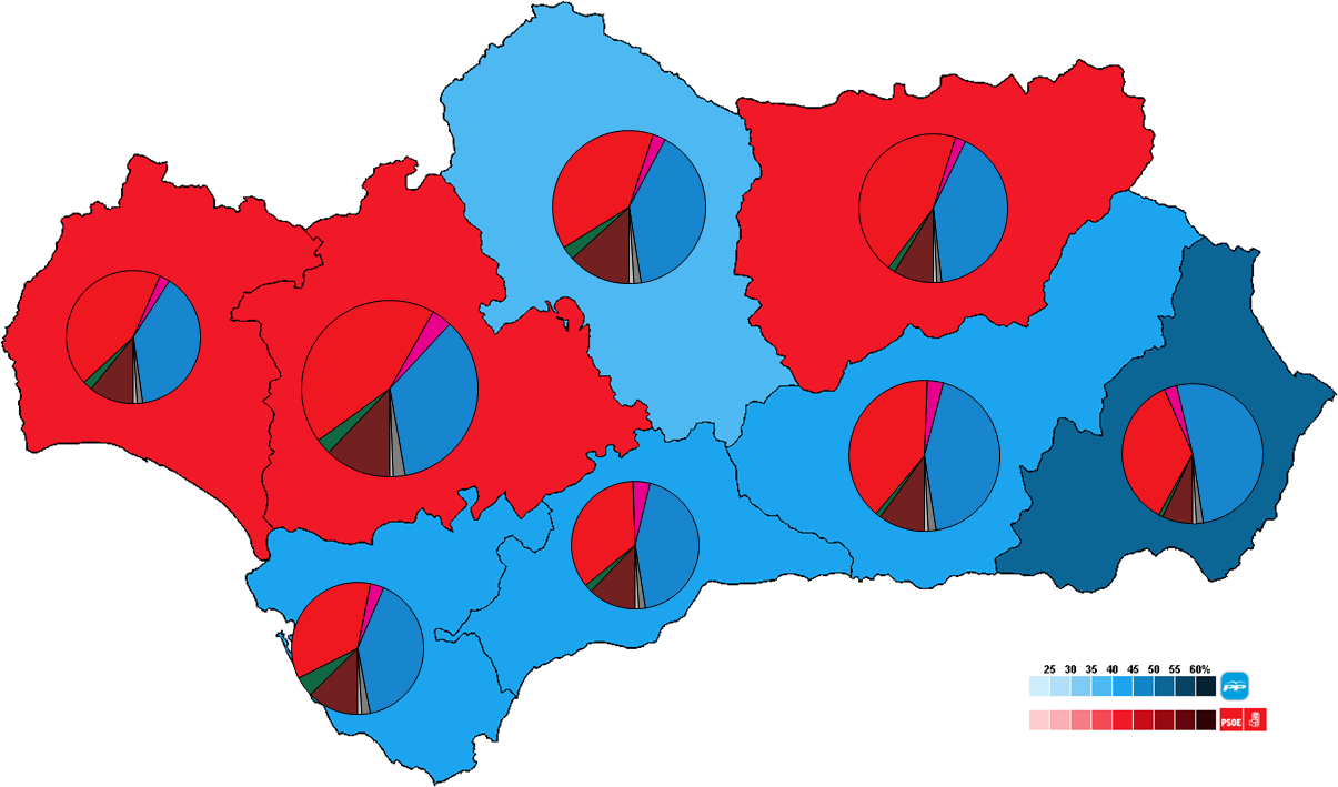 Provincial results for the Andalusian parliamentary election, 2012.